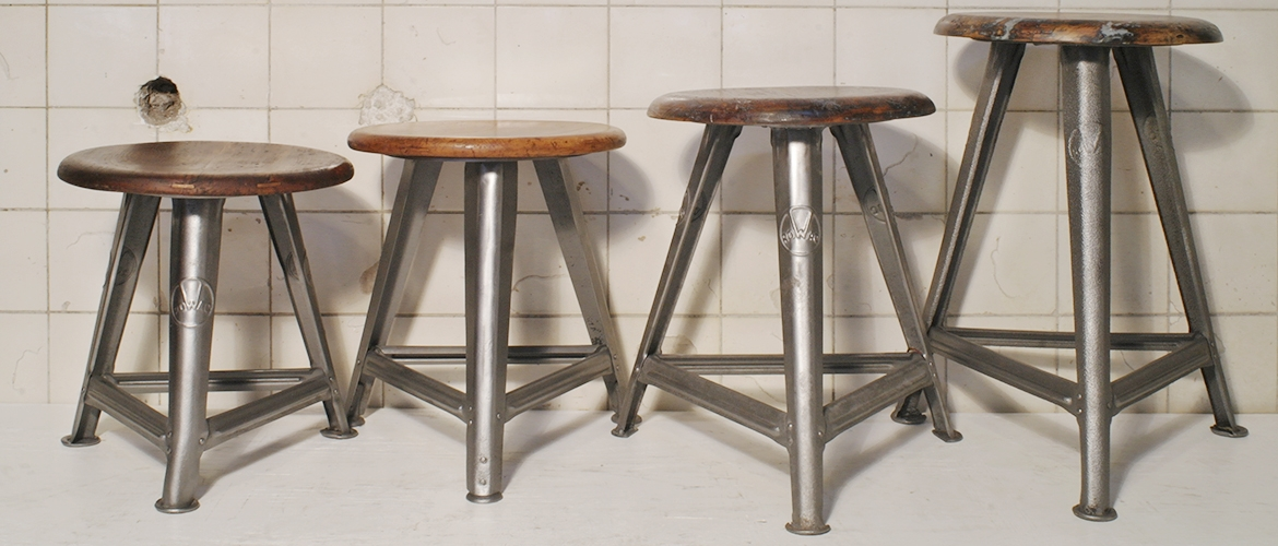 four restored ROWAC stools of different size